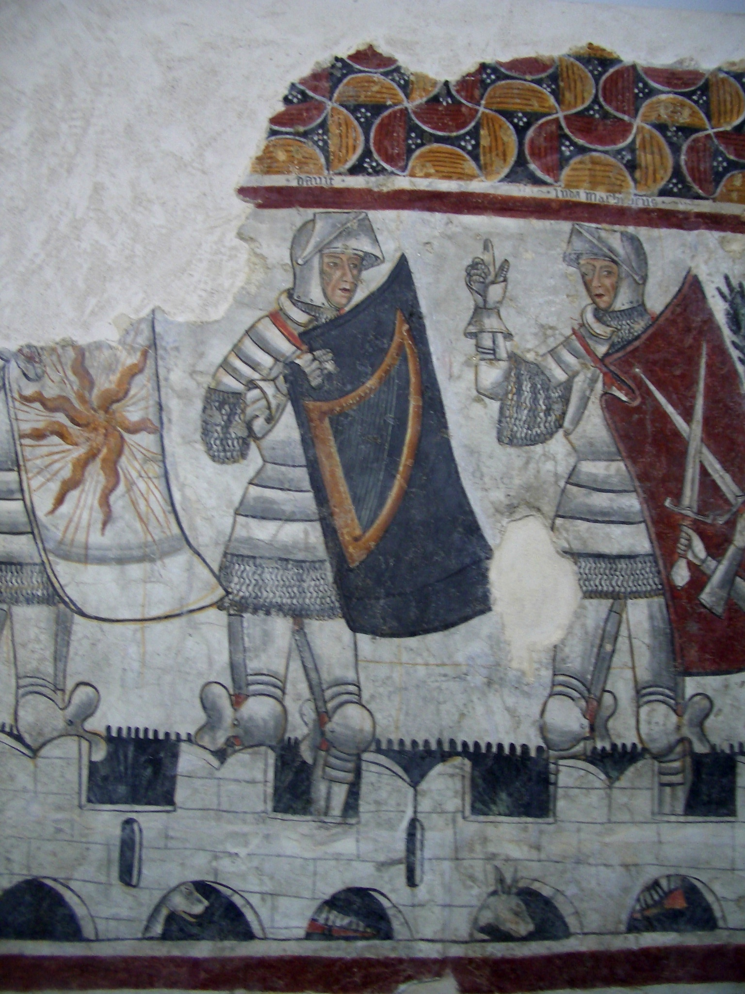 Giacomino di Ivrea, Nine Worthies, (detail of David) fresco removed from the castle of Villa Castelnuovo, ca. 1440-45, Cuorgnè, Museo Archeologico del Canavese